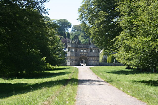 Lanhydrock Gatehouse from The Avenue